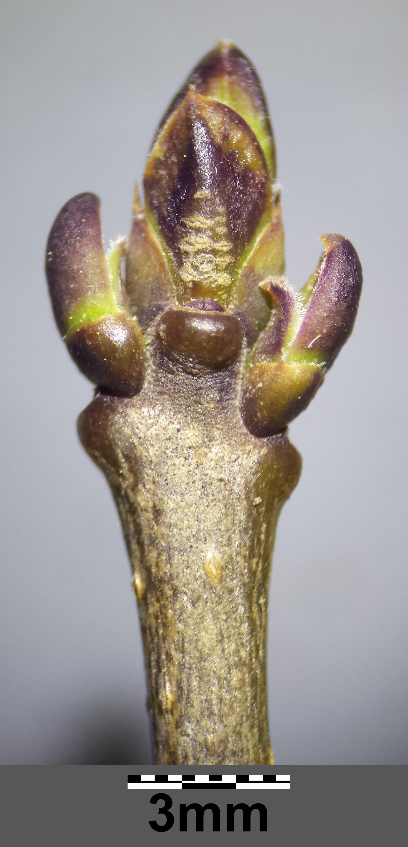 Buds Taxonym: Ligustrum vulgare ss Fischer et al. EfÖLS 2008 ISBN 978-3-85474-187-9 Location: Bisamberg/Falkenberg, Vienna/Lower Austria - ca. 300 m a.s.l. Habitat: Carpinion betuli